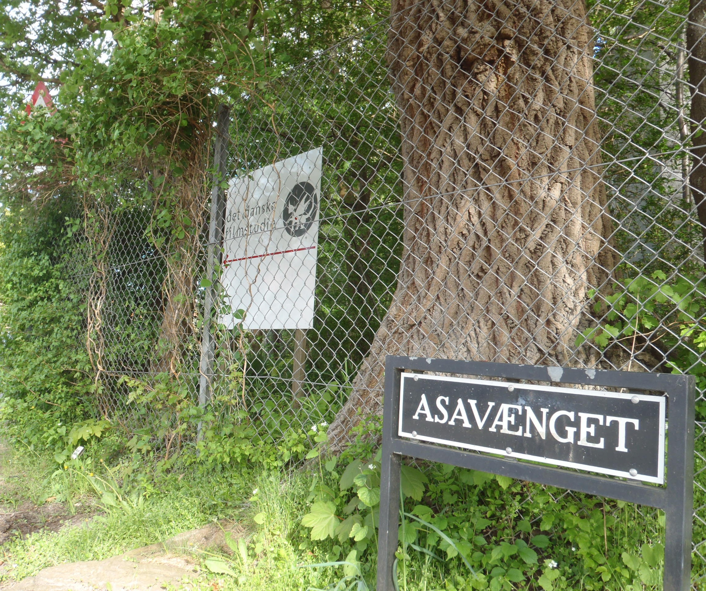 The Danish Film Studio on Blomstervænget/Asavænget i Kongens Lyngby.